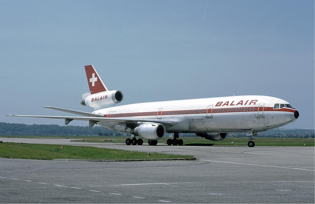 A McDonnell Douglas DC-10 of Balair at Basle Airport